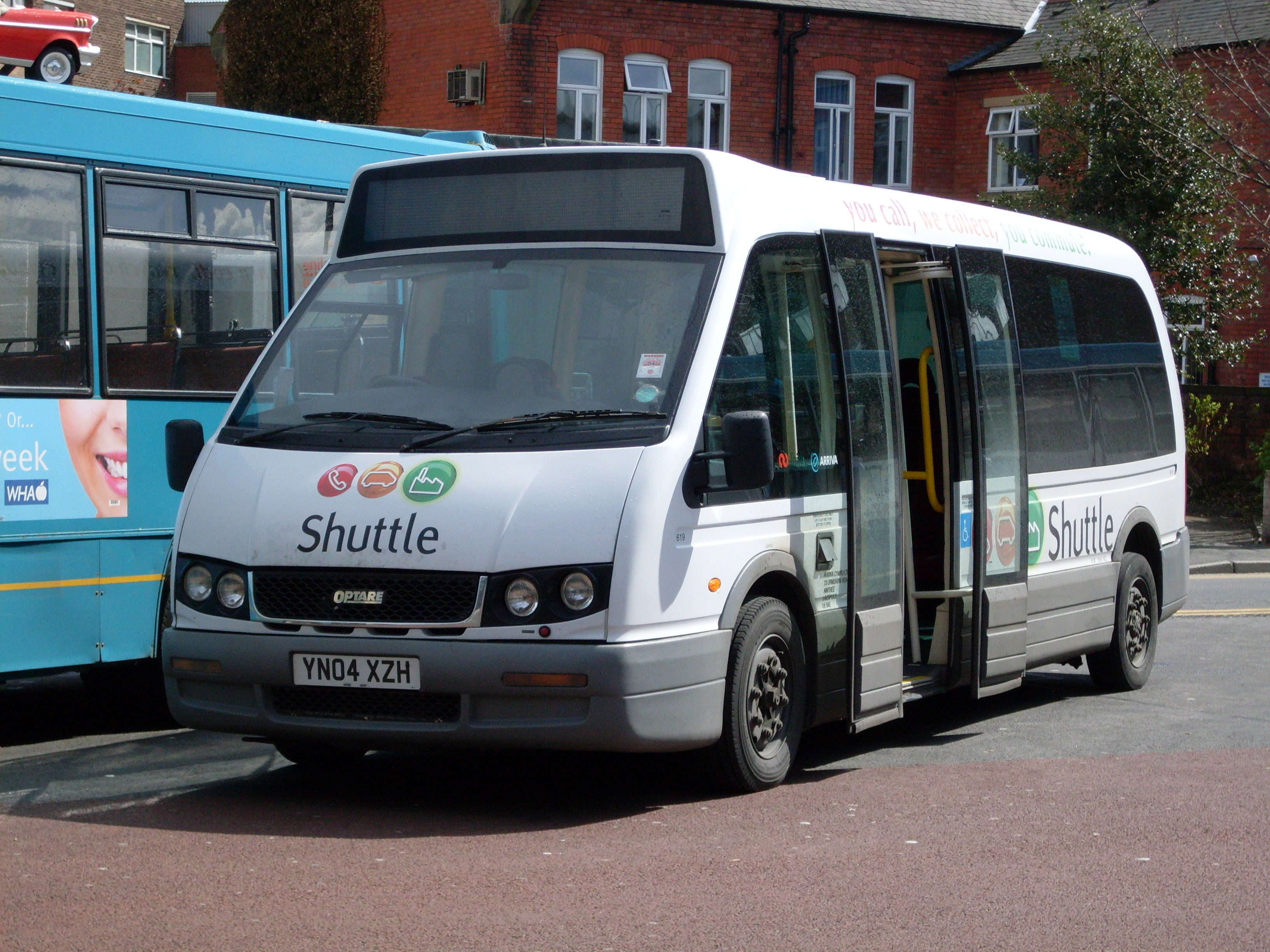 Arriva North West and Wales 619 (YN04 XZH), an Optare Alero, owned by the Council and in the Wrexham Shuttle livery, seen in Wrexham bus station.